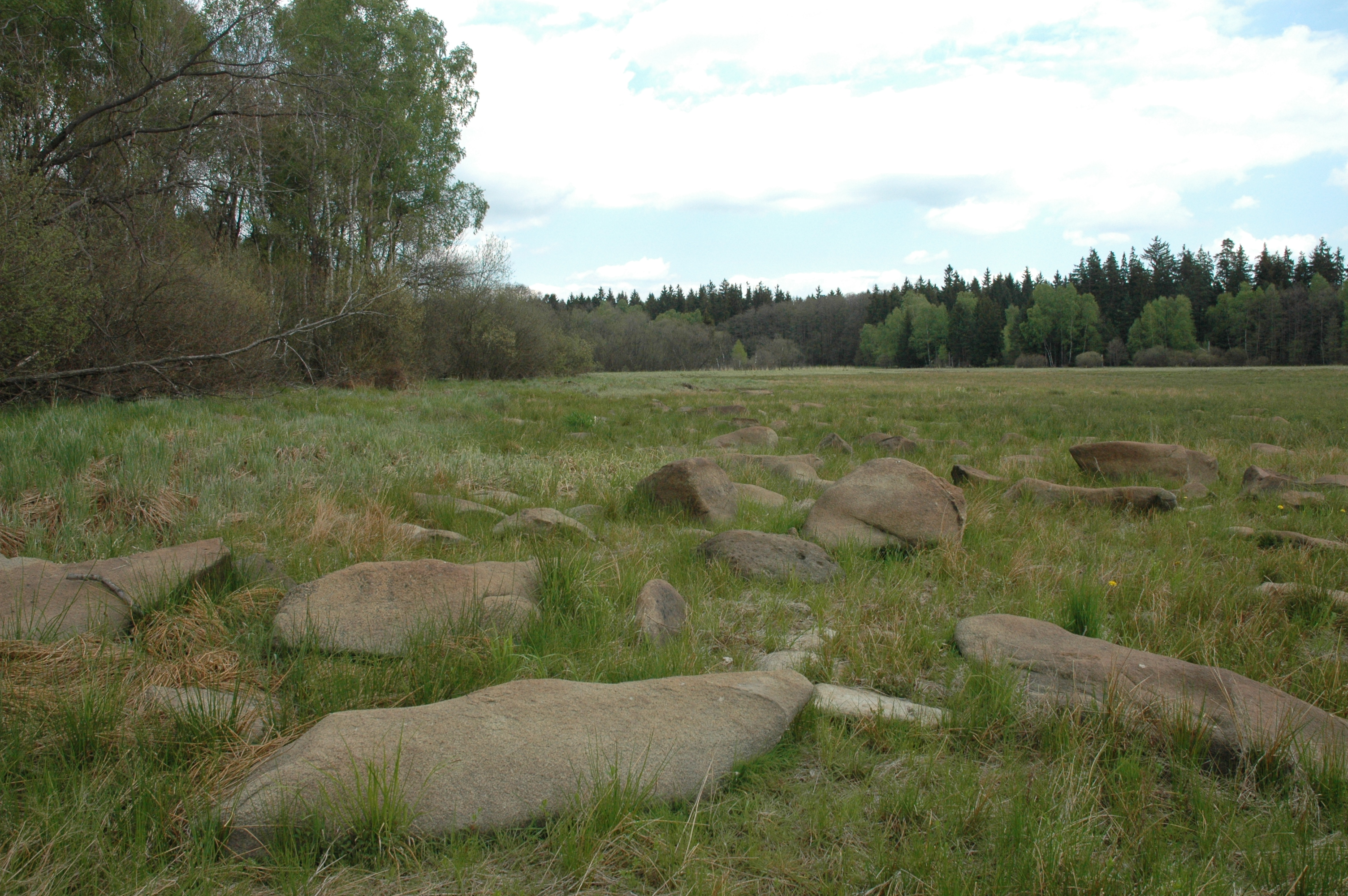 Nature reserve Hubský in Chrudim District, Czech Republic